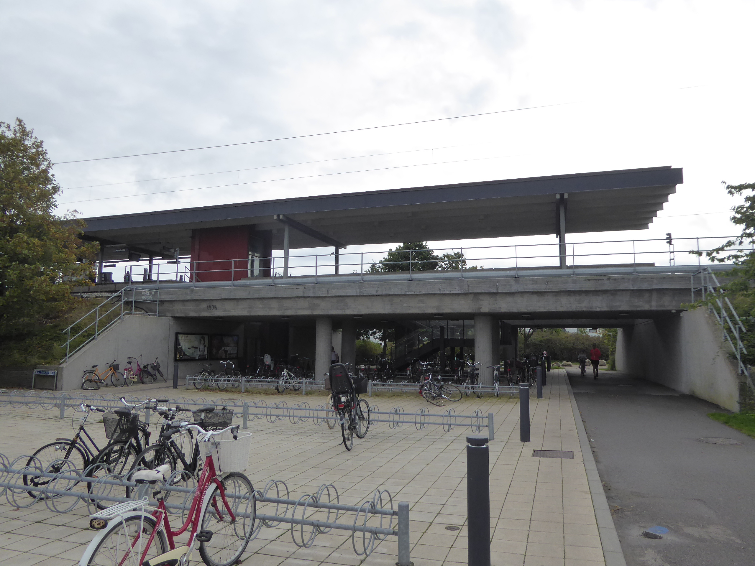 Karlslunde Station of Køge Bugt-banen south of Copenhagen.